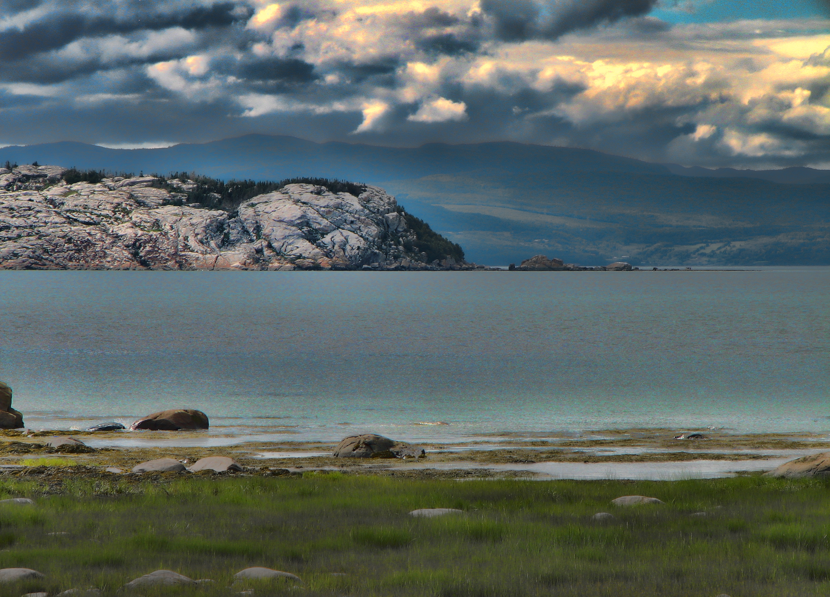 The Saint Lawrence River in Notre-Dame-du-Portage, west of Rivière-du-Loup, Quebec.